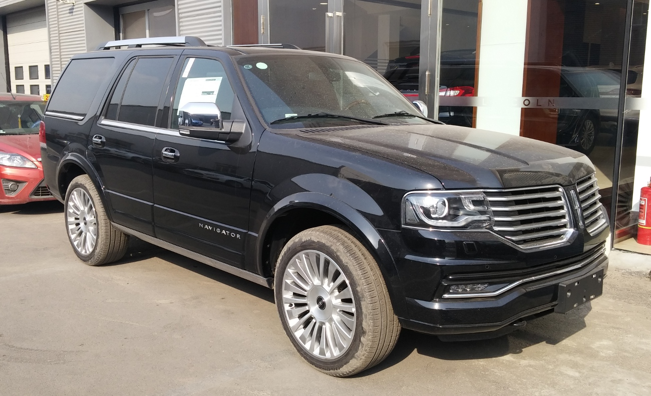 Lincoln Navigator III facelift photographed in Harbin, Heilongjiang province, China.